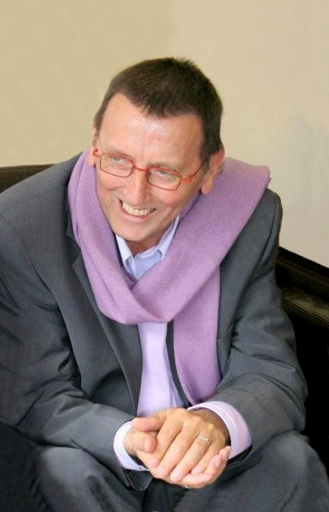 Remi Verwimp, october 2009